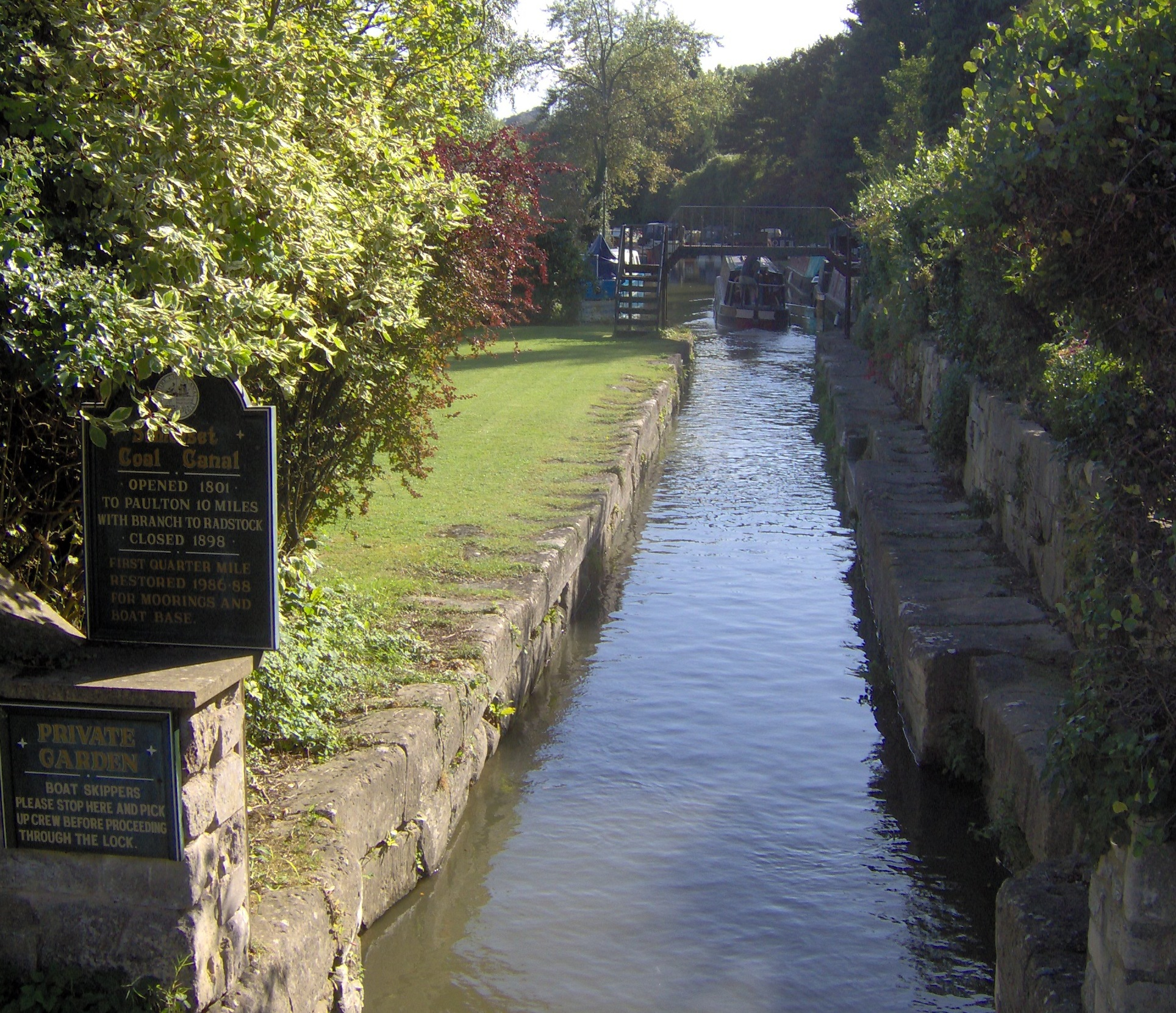 Entrance to Somerset Coal Canal at Dundas. Taken by Rod Ward Sept 2006